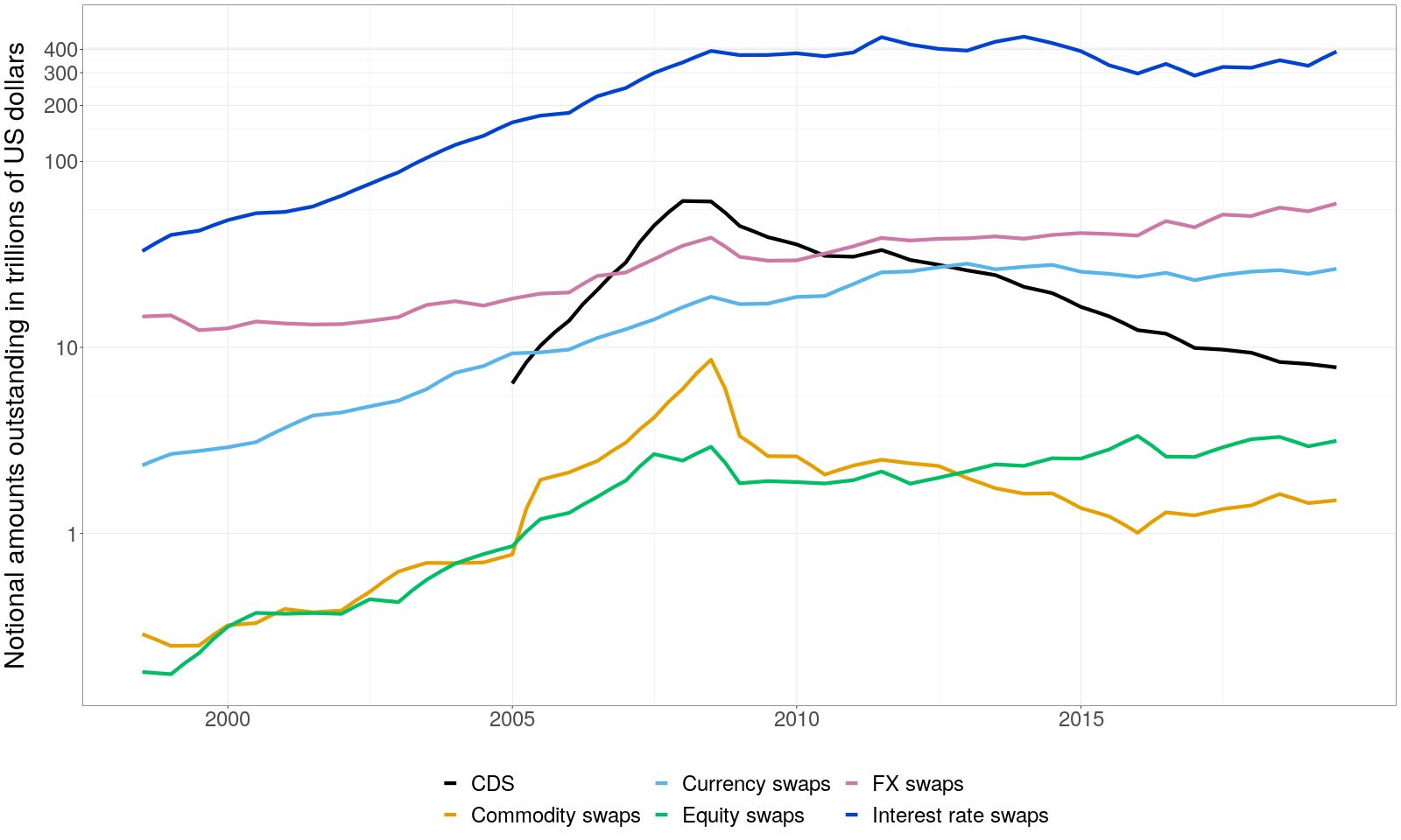 Graph showing the notional amount outstanding for various swaps between 1998 and 2019. Uses data from the BIS (Table D5